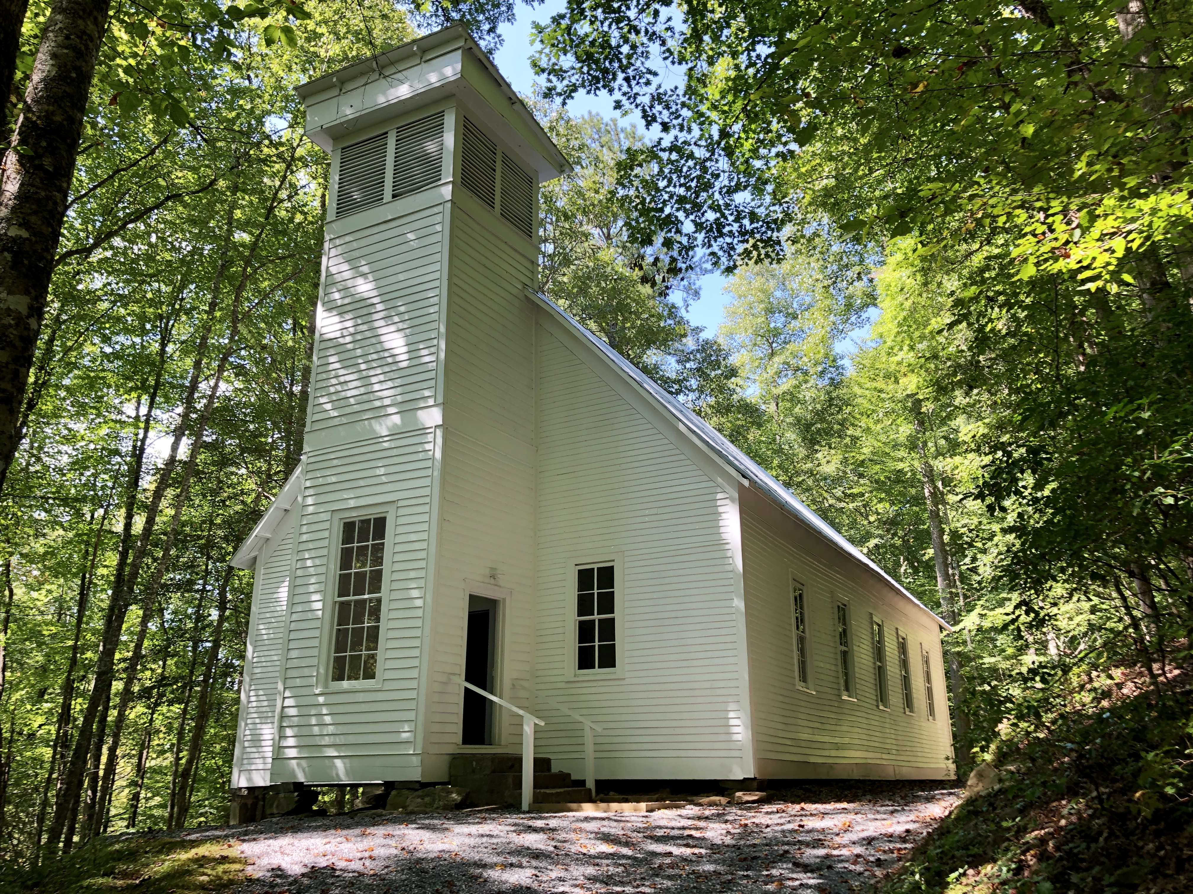 This is the former Oconaluftee Baptist Church located at the former town of Smokemont in the Great Smoky Mountains National Park, near Cherokee, North Carolina. Constructed in 1912, the building was built to house the congregation variously known as the Oconaluftee Baptist Church, Lufty Baptist Church, and the Smokemont Baptist Church, as seen on the variety of names used on the signage near the building and in the existing article about the building. The building remained in regular use until it was bought by the United States Government to become part of the Great Smoky Mountains National Park in 1935. It was listed on the National Register of Historic Places in 1976.